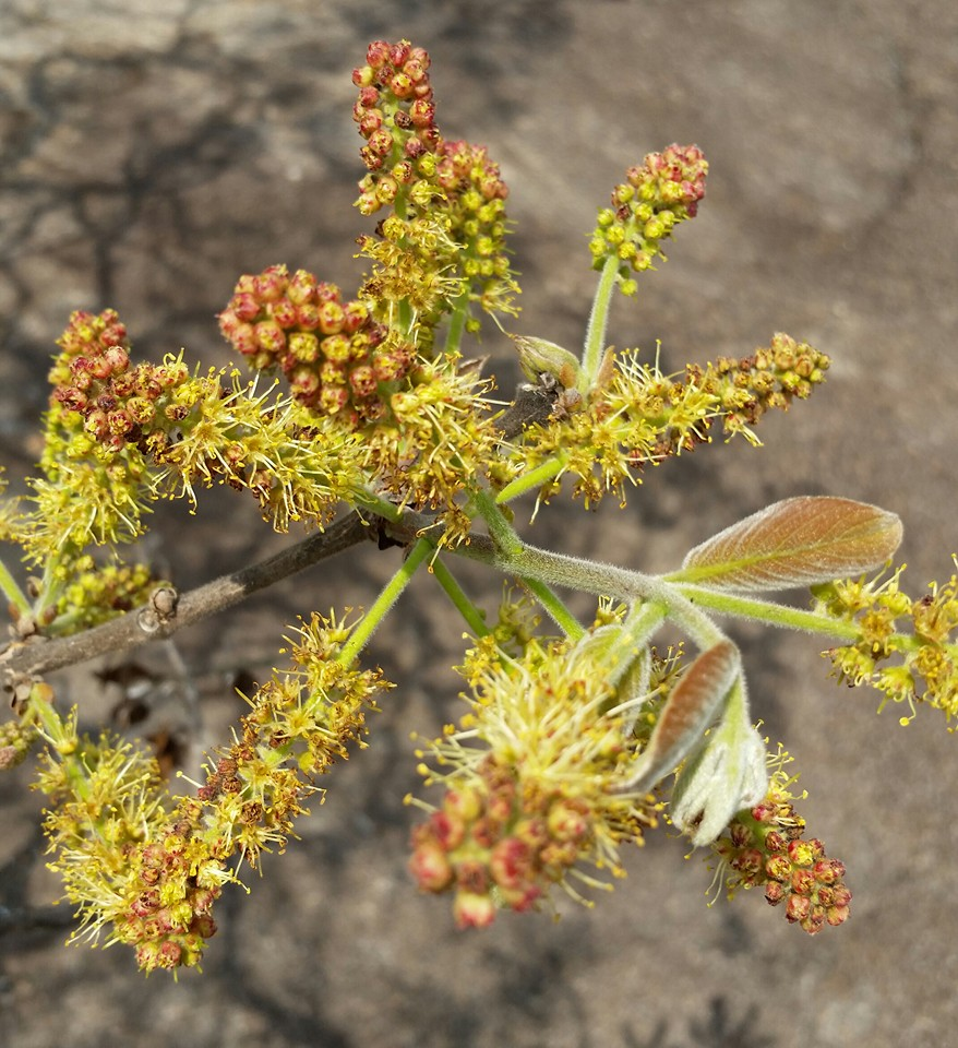 Combretum molle R.Br. ex G.Don - flowers and flower buds - White River, South Africa